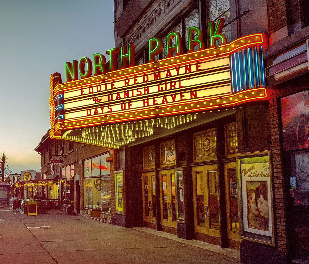 A photo of the historic North Park Theatre at 1428 Hertel Avenue, Buffalo NY 14216, showing the film The Danish Girl (2015) and Days of Heaven (1978).